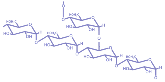 molecular structure of agarose